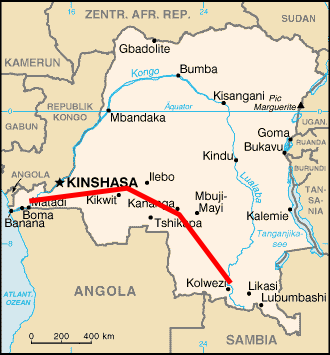 Map of the HVDC line between Inga and Shaba in the Democratic Republic of the Congo